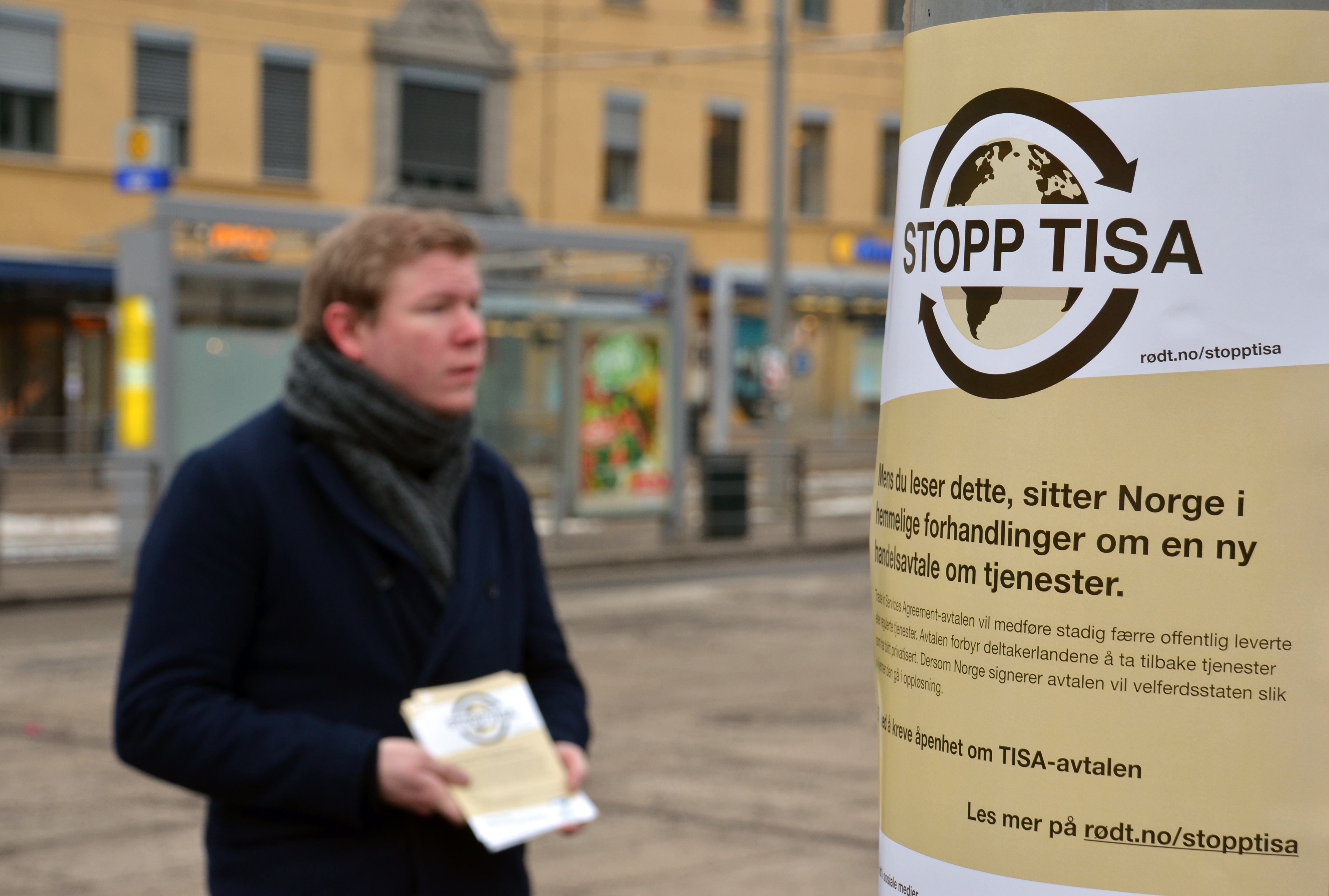 Protest against Trade In Services Agreement (TISA) in Oslo, Norway.